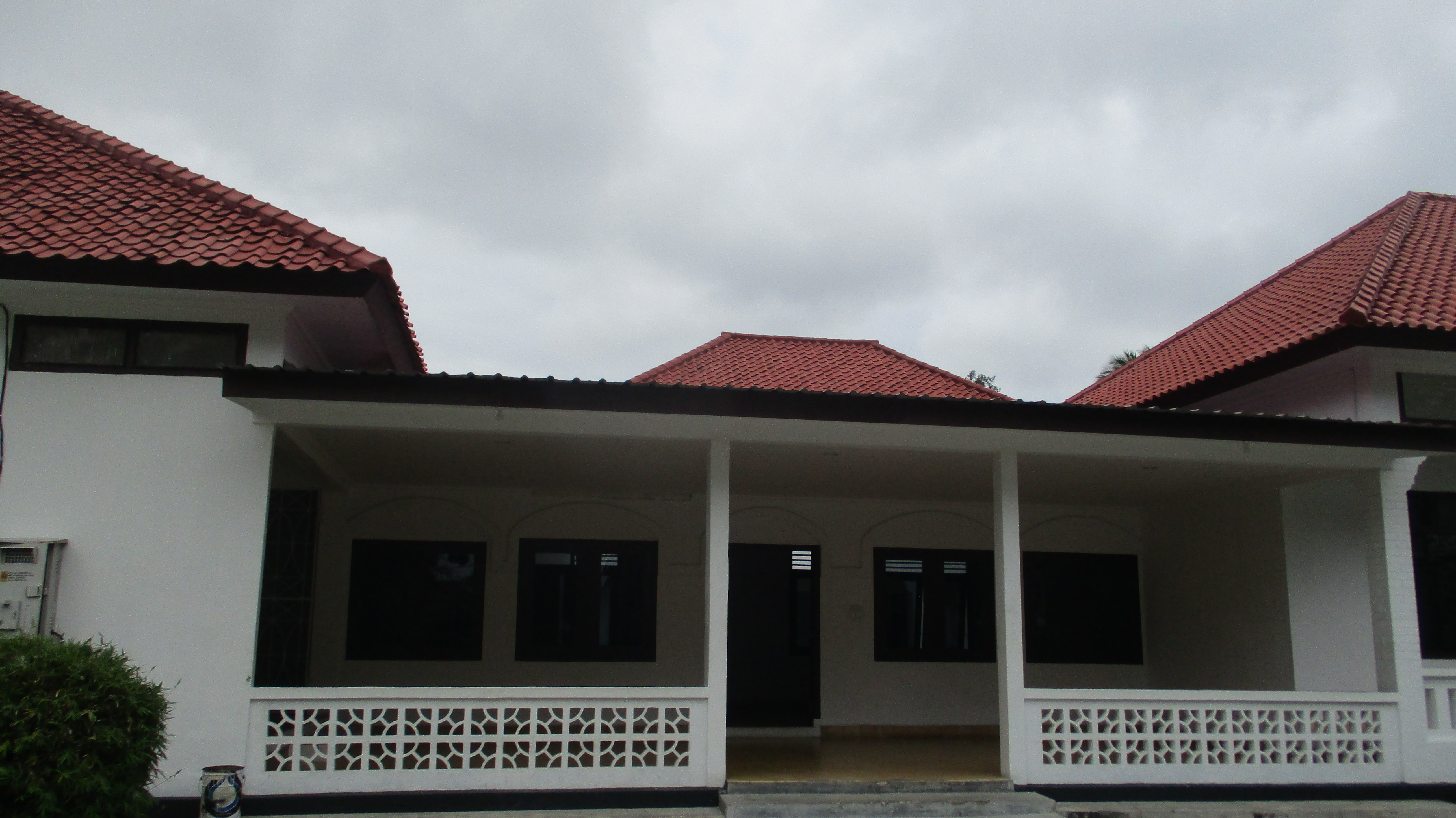 Tony Wen Home in Sungailiat. Tony Wen is a prominent Chinese-Indonesian figure in Indonesian independence movement.